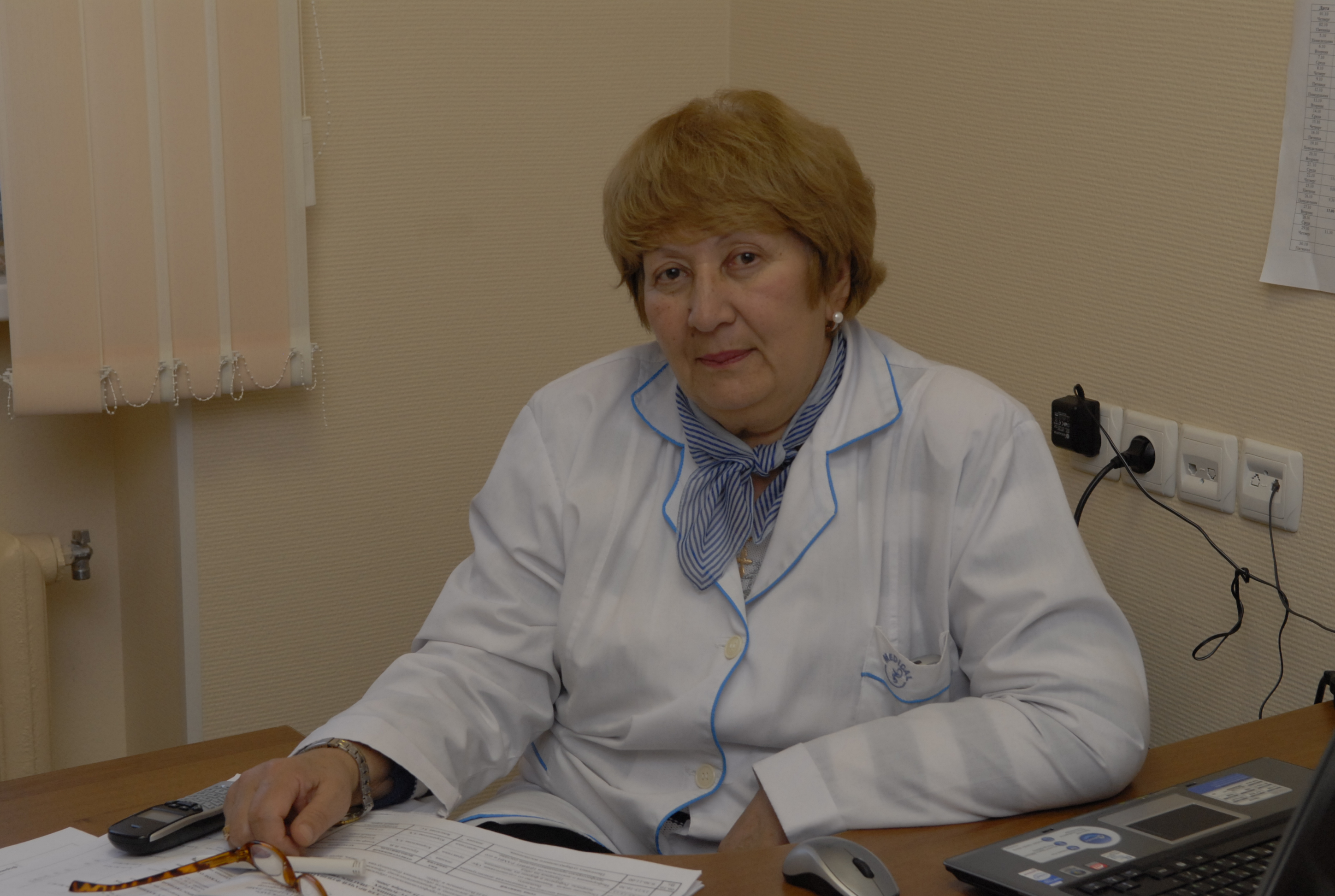 Kornilova Z.Kh.